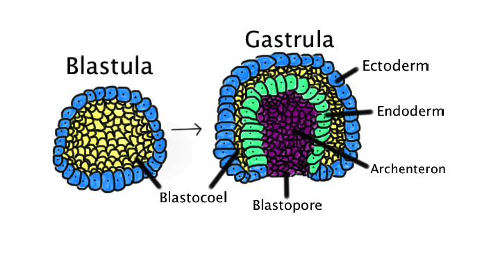 This image shows the process of gastrulation. Gastrulation occurs when a blastula, made up of one layer, folds inward and enlarges to create a gastrula. A gastrula has 3 germ layers--the ectoderm, the mesoderm, and the endoderm. Some of the ectoderm cells from the blastula collapse inward and form the endoderm. The blastospore is the hole created in this action. Whether this blastospore develops into a mouth or an anus determines whether the organism is a protostome or a dueterostome. This diagram is color coded. Ectoderm, blue. Endoderm, green. Blastocoel (the yolk sack), yellow. Archenteron (the gut), purple.